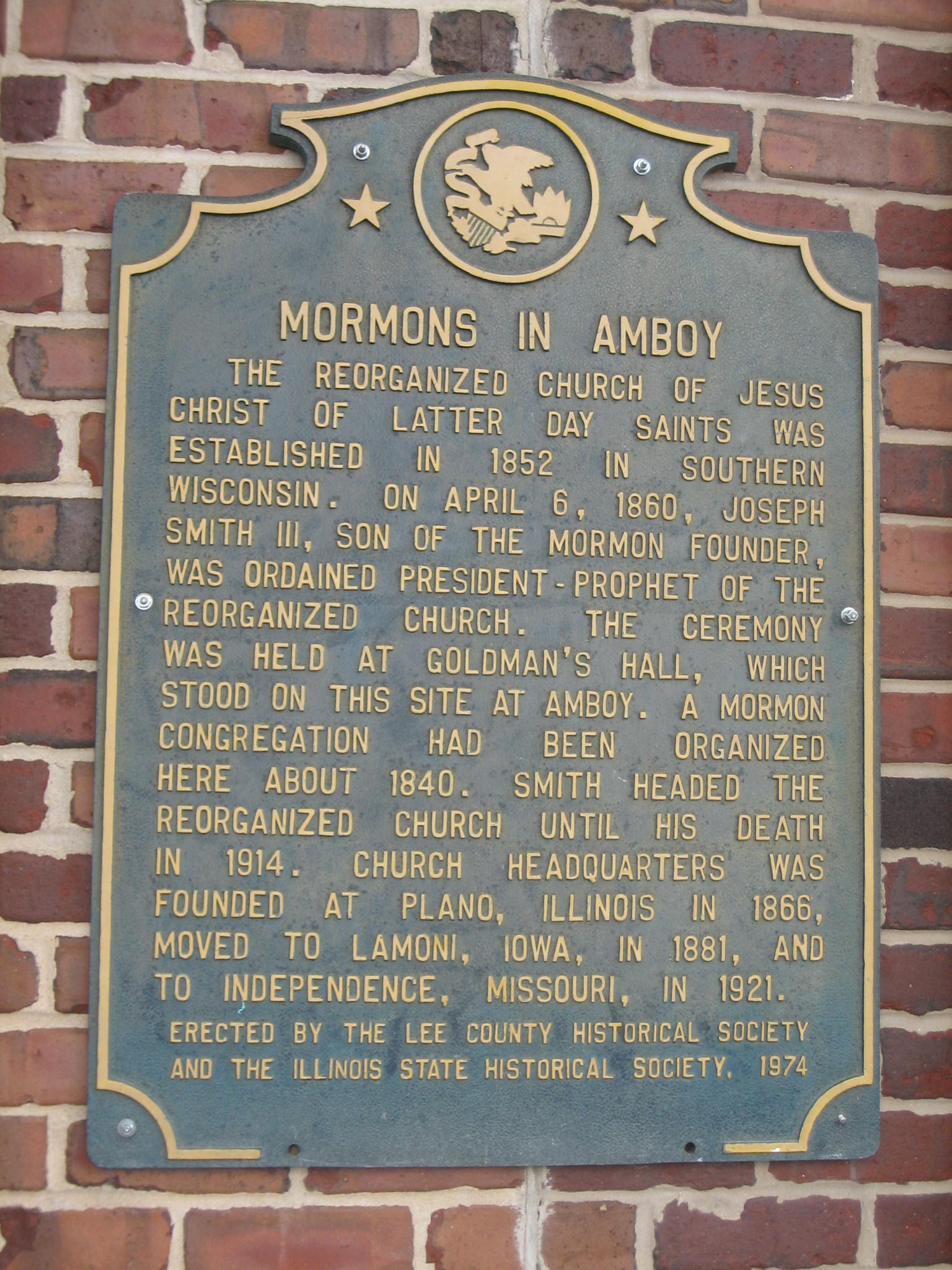 Downtown, Amboy, Illinois. Historic site plaque concerning Mormons in Illinois, which reads: MORMONS IN AMBOY THE REORGANIZED CHURCH OF JESUS CHRIST OF LATTER DAY SAINTS WAS ESTABLISHED IN 1852 IN SOUTHERN WISCONSIN. ON APRIL 6, 1860, JOSEPH SMITH III, SON OF THE MORMON FOUNDER, WAS ORDAINED PRESIDENT-PROPHET OF THE REORGANIZED CHURCH. THE CEREMONY WAS HELD AT GOLDMAN'S HALL, WHICH STOOD ON THIS SITE AT AMBOY. A MORMON CONGREGATION HAD BEEN ORGANIZED HERE ABOUT 1840. SMITH HEADED THE REORGANIZED CHURCH UNTIL HIS DEATH IN 1914. CHURCH HEADQUARTERS WAS FOUNDED AT PLANO, ILLINOIS IN 1866, MOVED TO LAMONI, IOWA, IN 1881, AND TO INDEPENDENCE, MISSOURI, IN 1921. ERECTED BY THE LEE COUNTY HISTORICAL SOCIETY AND THE ILLINOIS STATE HISTORICAL SOCIETY, 1974